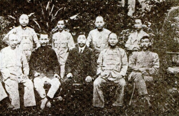 Those who had earlier taken part in the 1910 Penang Conference also featured in the picture:Deng Zeru of Kuala Pilah (seated far left), Huang Xing (seated third from right) and Li Xiaozhang of Ipoh (standing second from right).